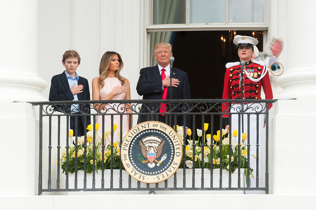 President Donald Trump, First Lady Melania Trump, and their son, Barron Trump, have their hands over their hearts while “The President's Own” U.S. Marine Band performs the National Anthem, Monday, April 17, 2017, kicking off the 139th Easter Egg Roll at the White House. This was the first Easter Egg Roll of the Trump Administration. (Official White House Photo by Joyce Boghosian)